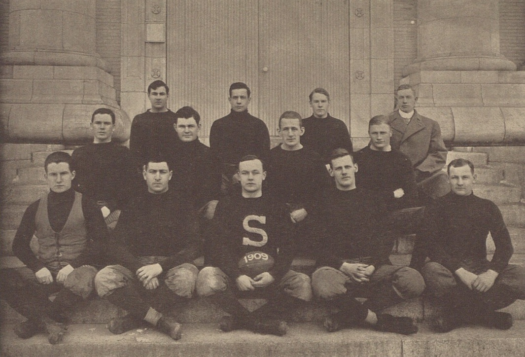 Pennsylvania State University football team from 1920.